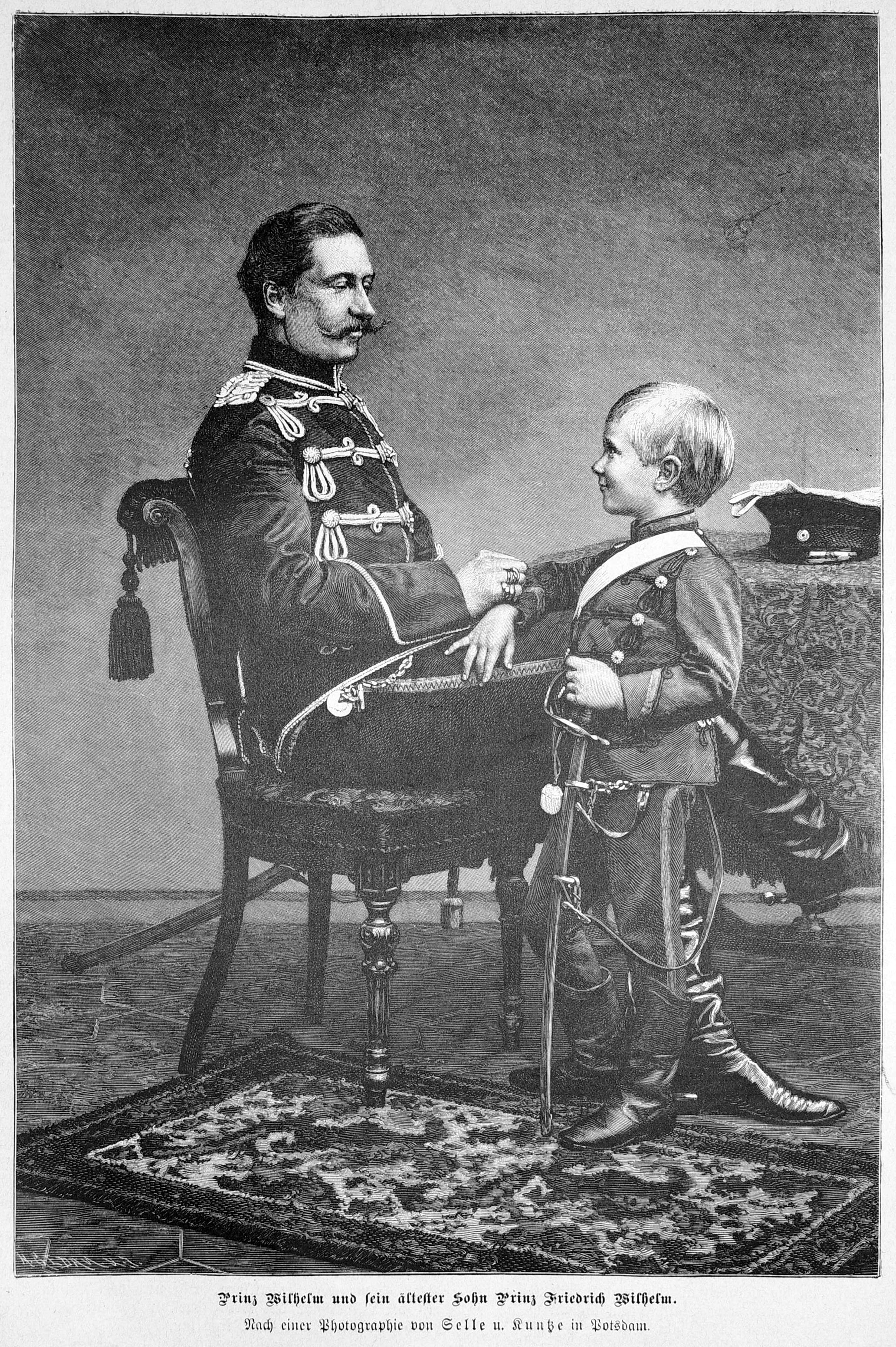 caption: "Prinz Wilhelm und sein ältester Sohn Prinz Friedrich Wilhelm.Nach einer Photographie von Selle u. Kuntze in Potsdam."